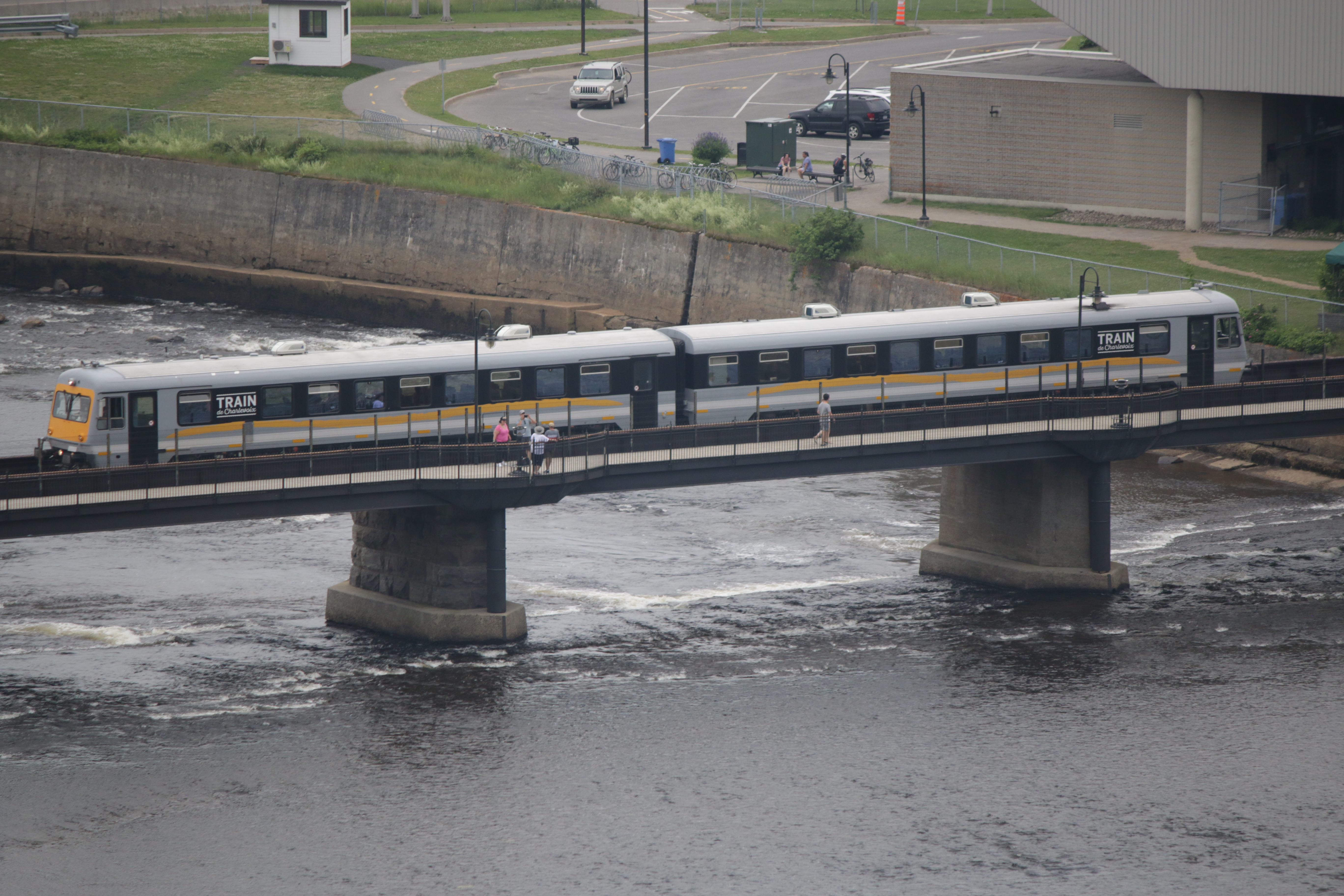 The DMU of the Train de Charlevoix crosses the river downstream of the Chute Montmorency